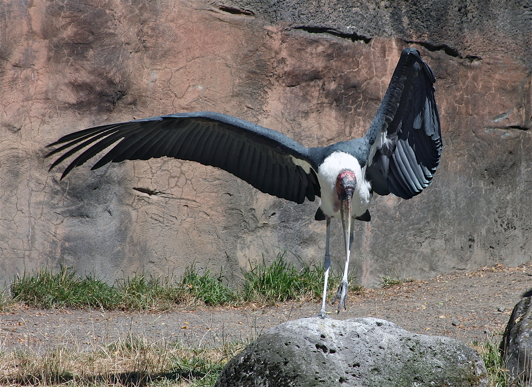 Marabou Stork (Leptoptilos crumeniferus) with wings outstreached at the Oregon Zoo